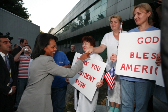 Secretary Rice greets the staff of the Tbilisi Central Hospital during her August 15 visit to Georgia.